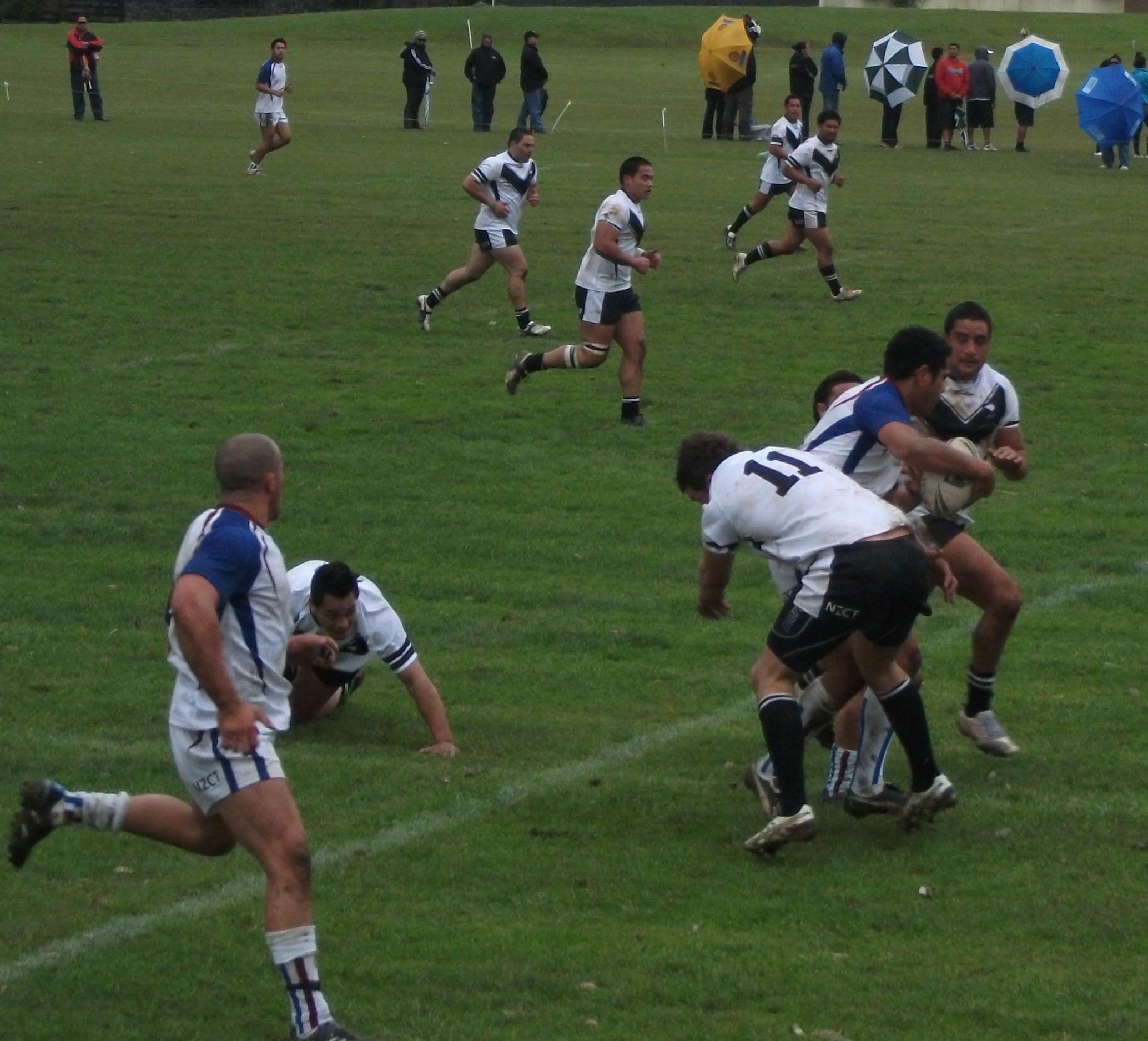 The Auckland Zone rugby league team vs the South Island rugby league team at Cornwall Park Stadium on 25 September 2010.